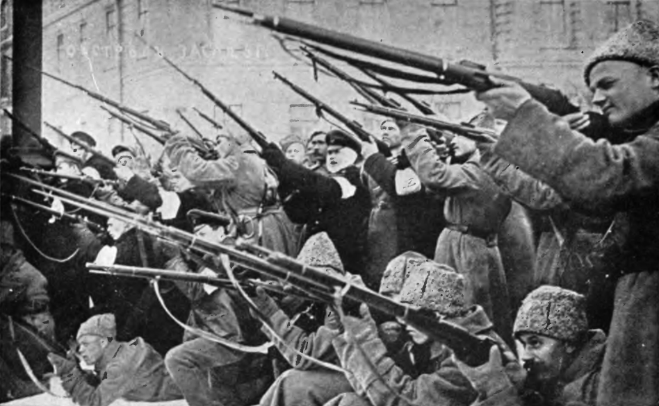 Attacking the Tzar's police during the first days of the March Revolution